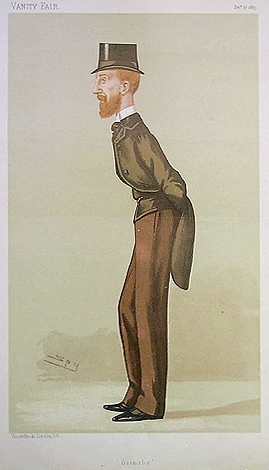 Caricate of Edward Heneage PC MP. Caption read "Grimsby".